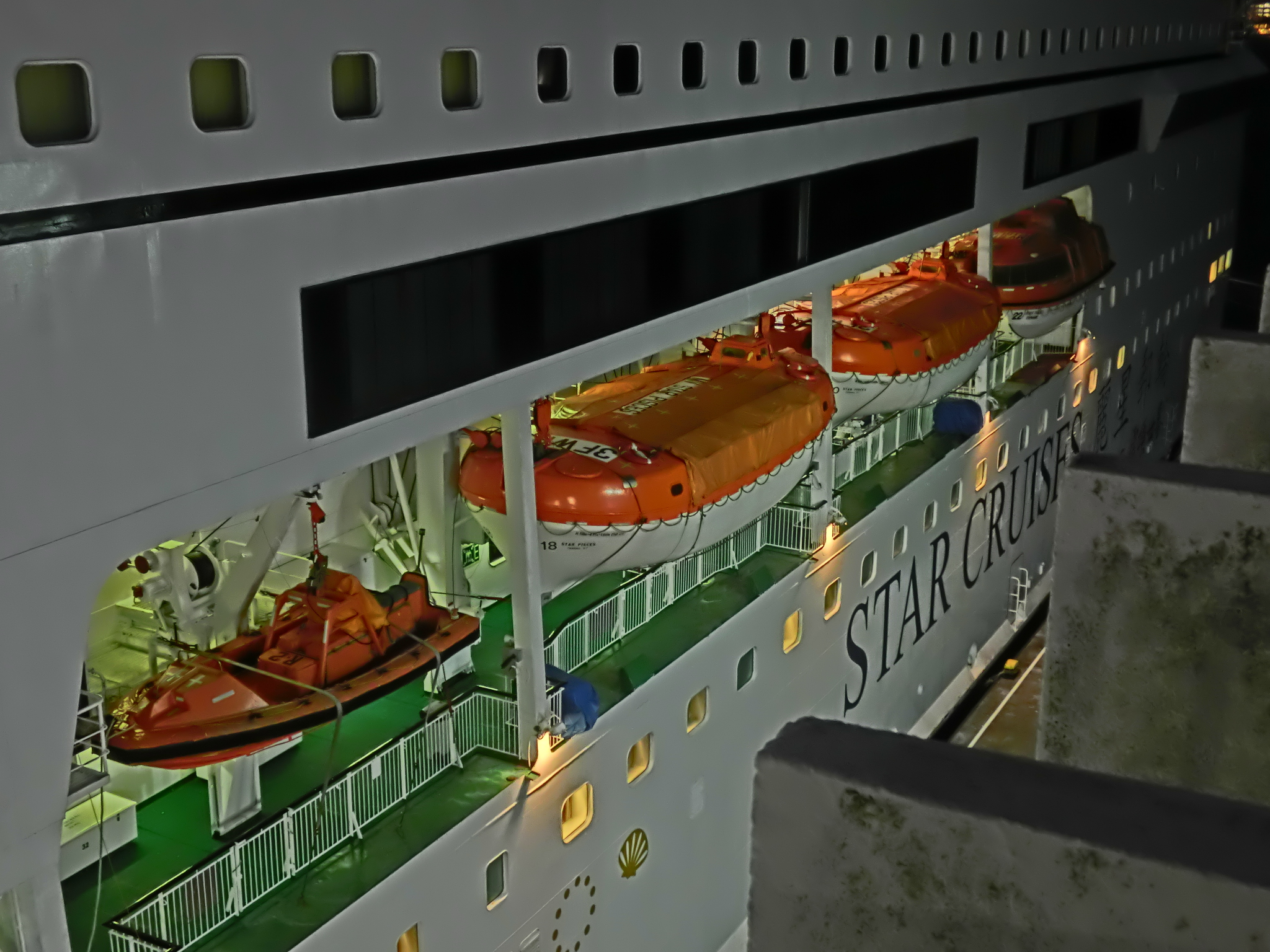 麗星郵輪 @ 海運大廈, Star Pisces at Ocean Terminal, Hong Kong, in Sept-2013